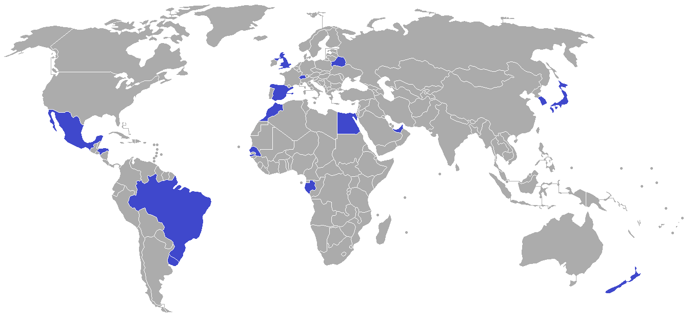 Map, showing countries which participate in men's football at the 2012 Summer OlympicsDansk: Kort, der viser hvilket lande der deltager i mændenes fodboldturnering under Sommer-OL 2012